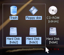 Mouse cursor performing multiple icon selection on KDE desktop